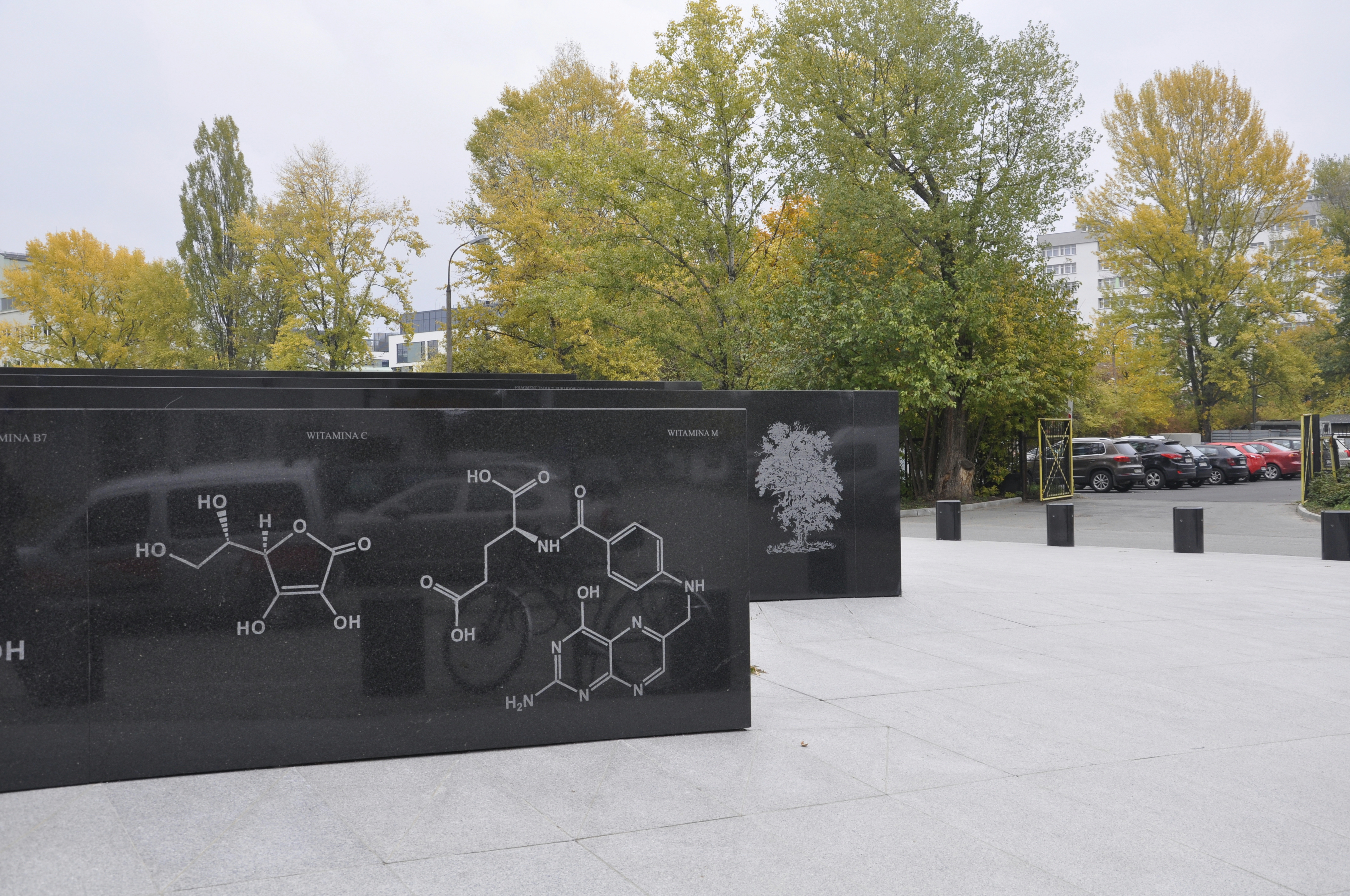 Building of Warsaw University's Centre of New Technologies, Banacha 2c Street, part of Ochota Campus